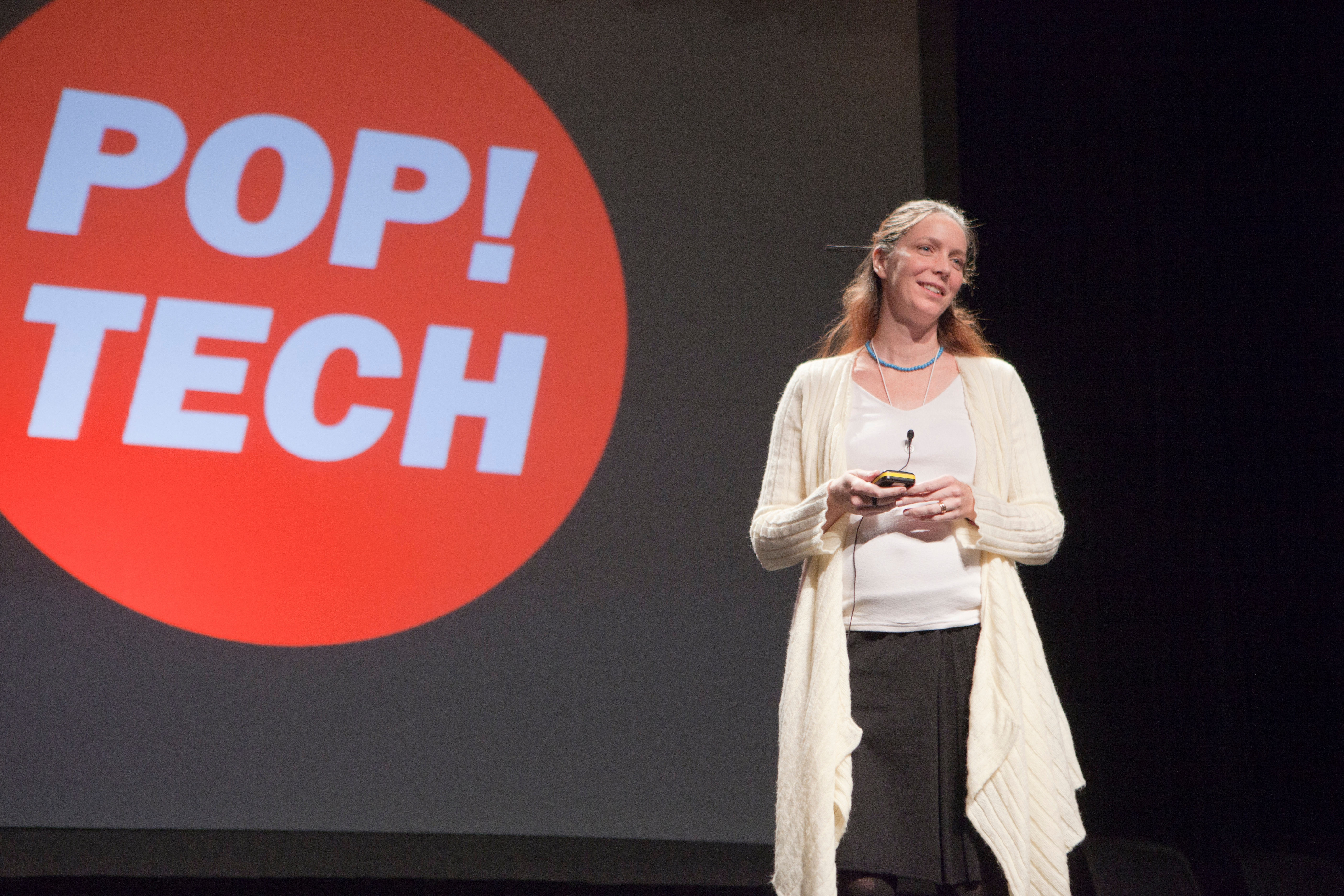 Kim Cobb - PopTech 2010 - Camden, Maine